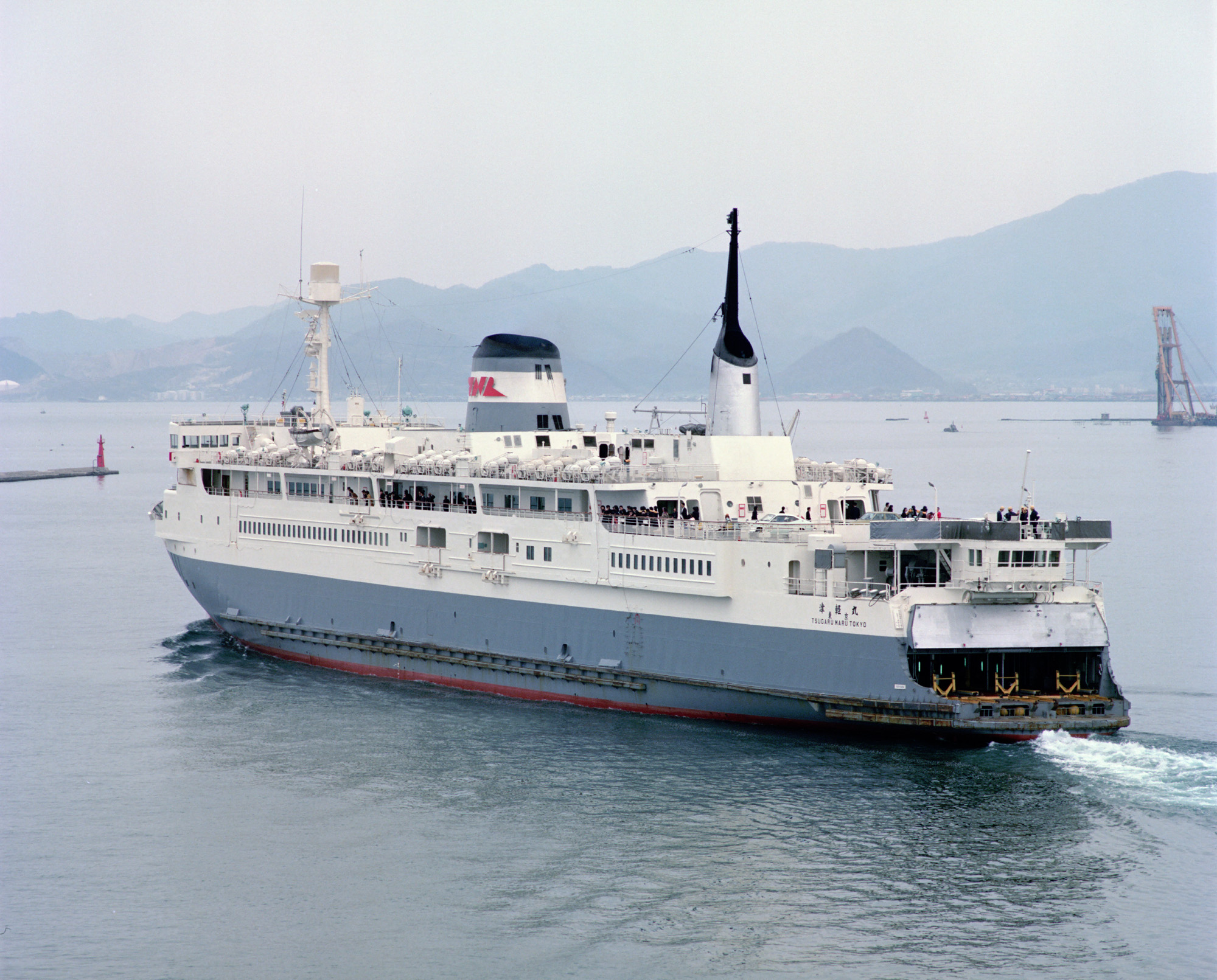 The Japanese National Railways train ferry between Aomori and Hakodate MS TSUGARU MARU 2 leaving from Aomori port